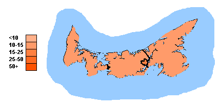 Map made by uploader (User:Earl Andrew); see [1] (question about source) and [2] (response).